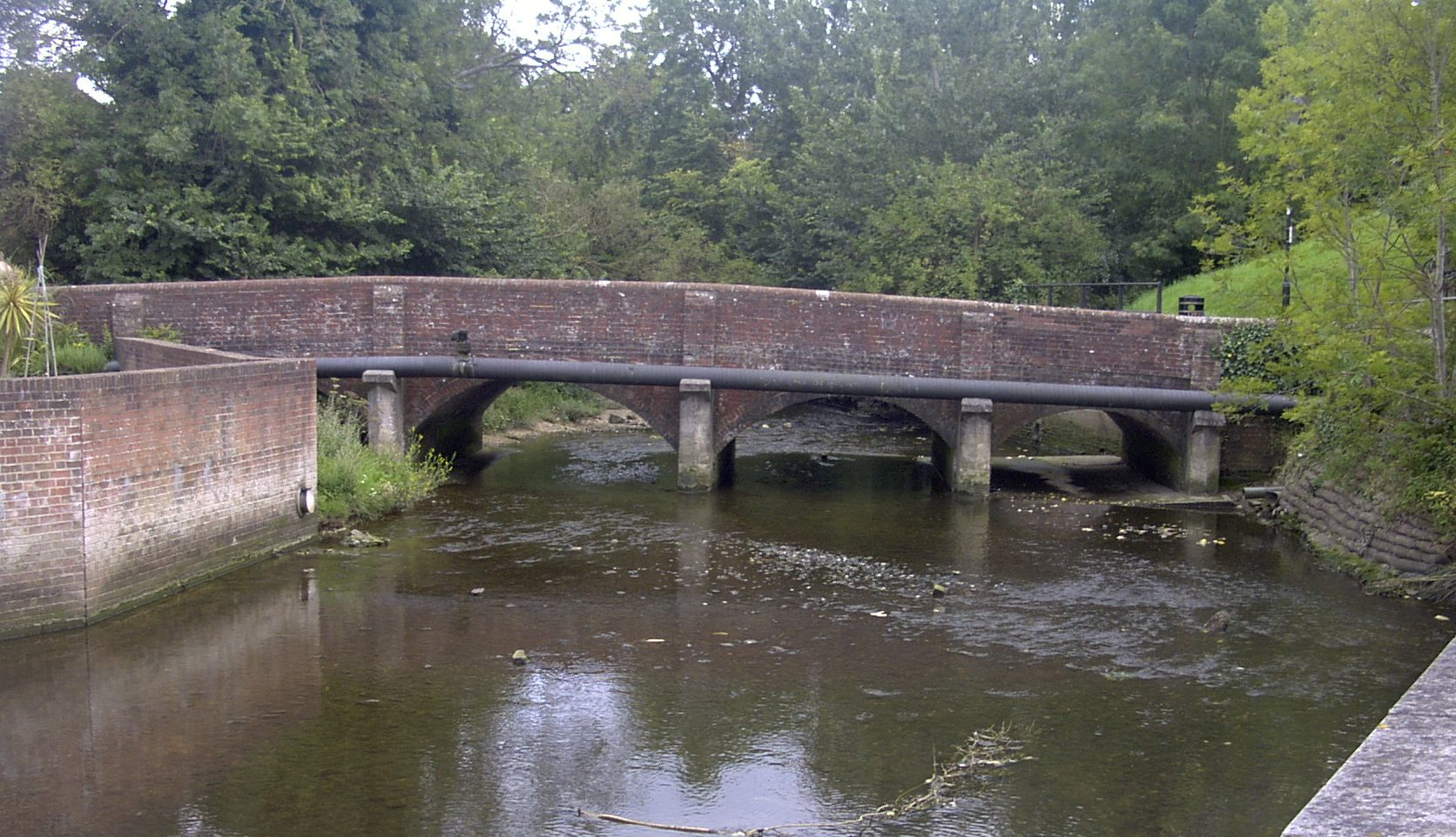 A photo of the River Wallington in Fareham